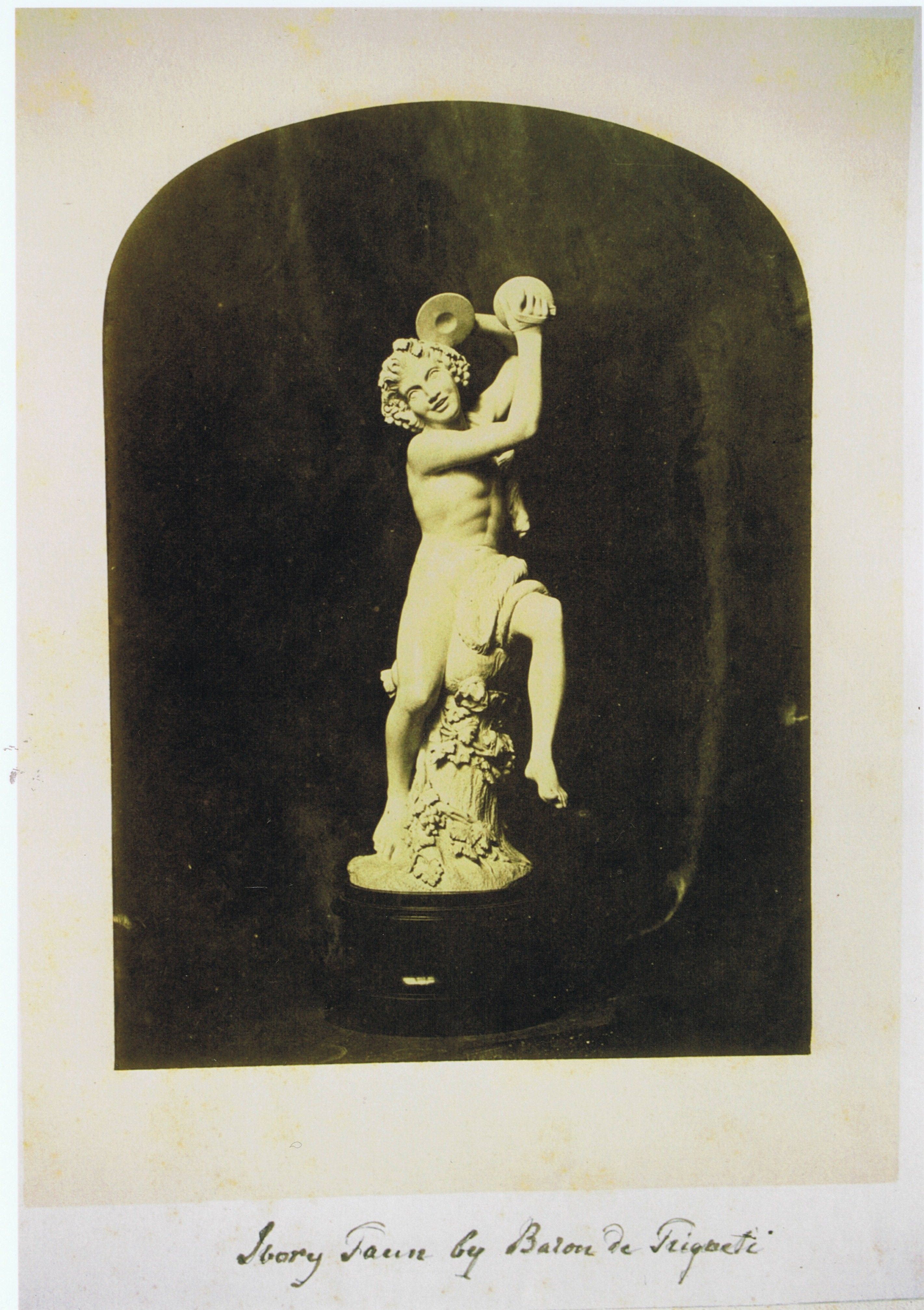 An ivory fawn by Triqueti. He died in 1874.